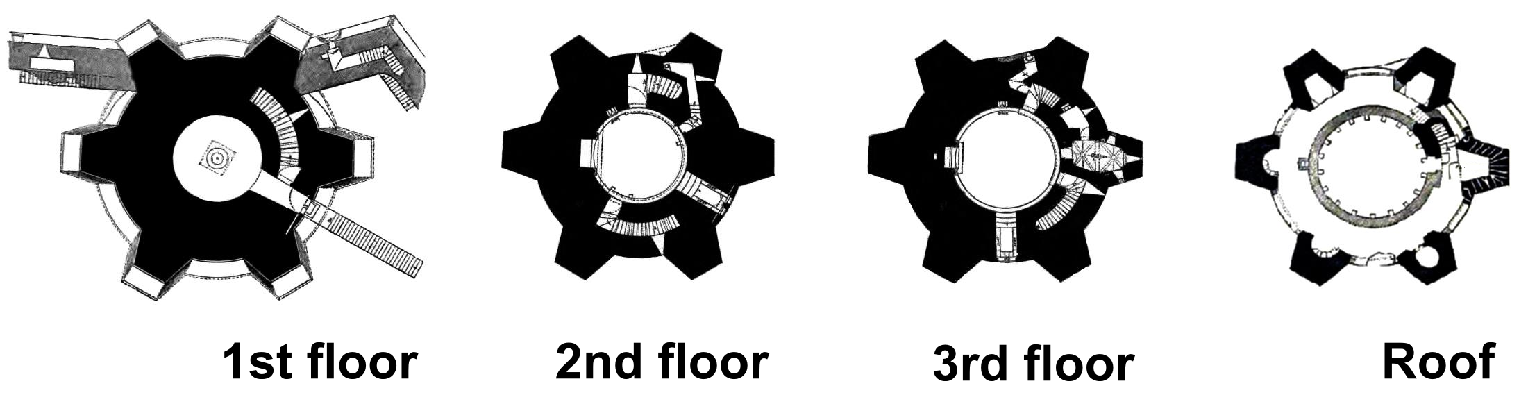 Plan of Conisbrough keep; cleaned up and labelled by hchc2009